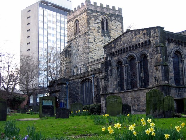 St Andrew's parish church, Newgate Street, Newcastle-upon-Tyne, seen from the southeast